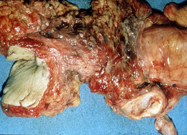 Macroscopic image of an anorectal melanoma.